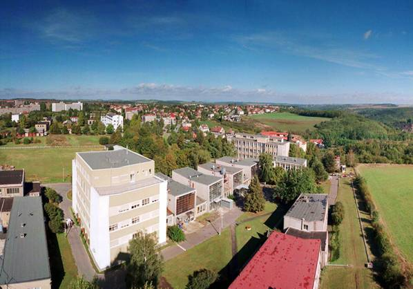 Campus of Academy of Sciences of the Czech Republic in Prague 6